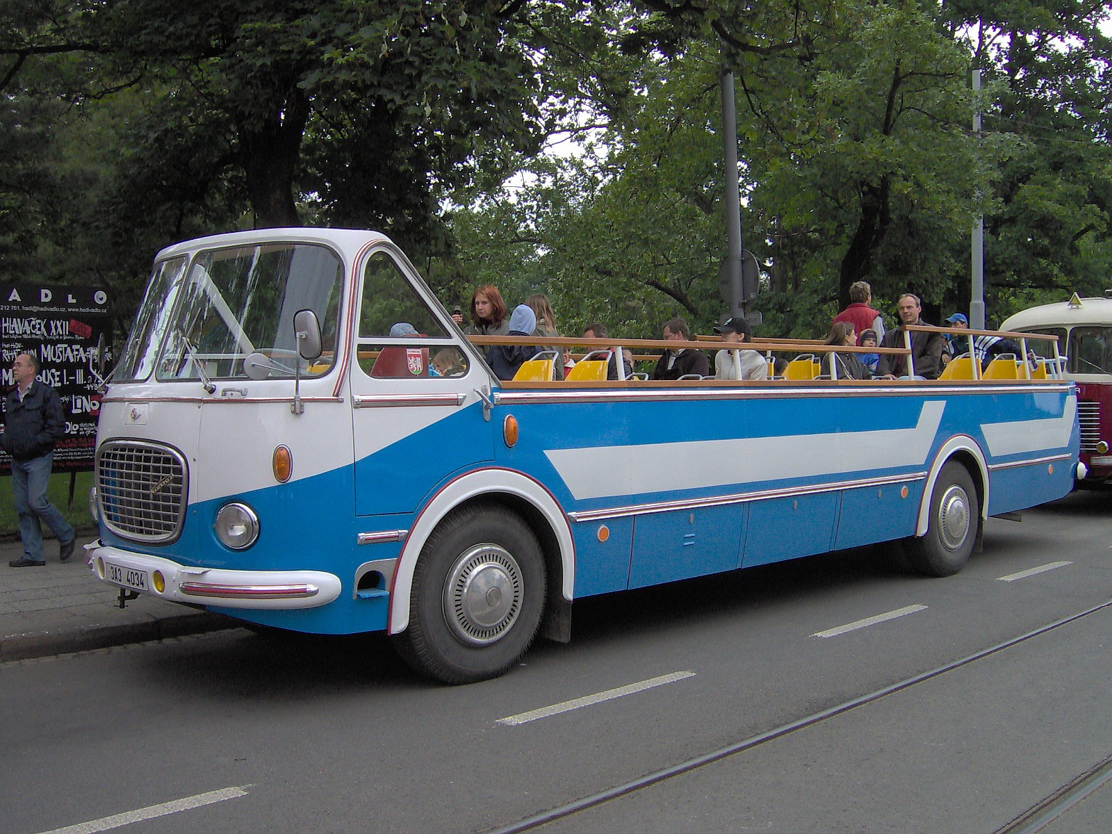 Historical bus Škoda 706 RTO Cabrio in Brno, Czech Republic